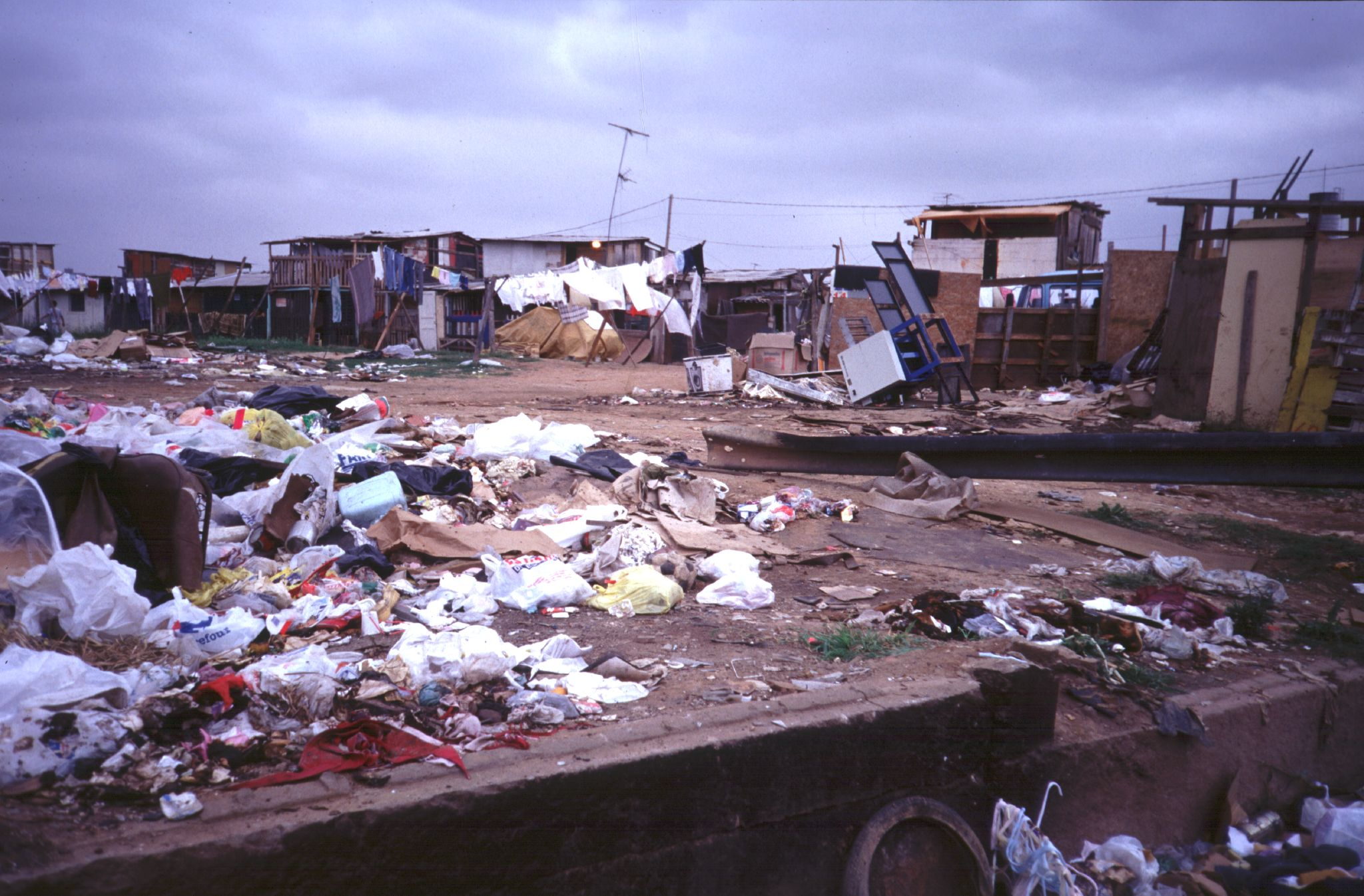 Favela in São Paulo, Brazil.